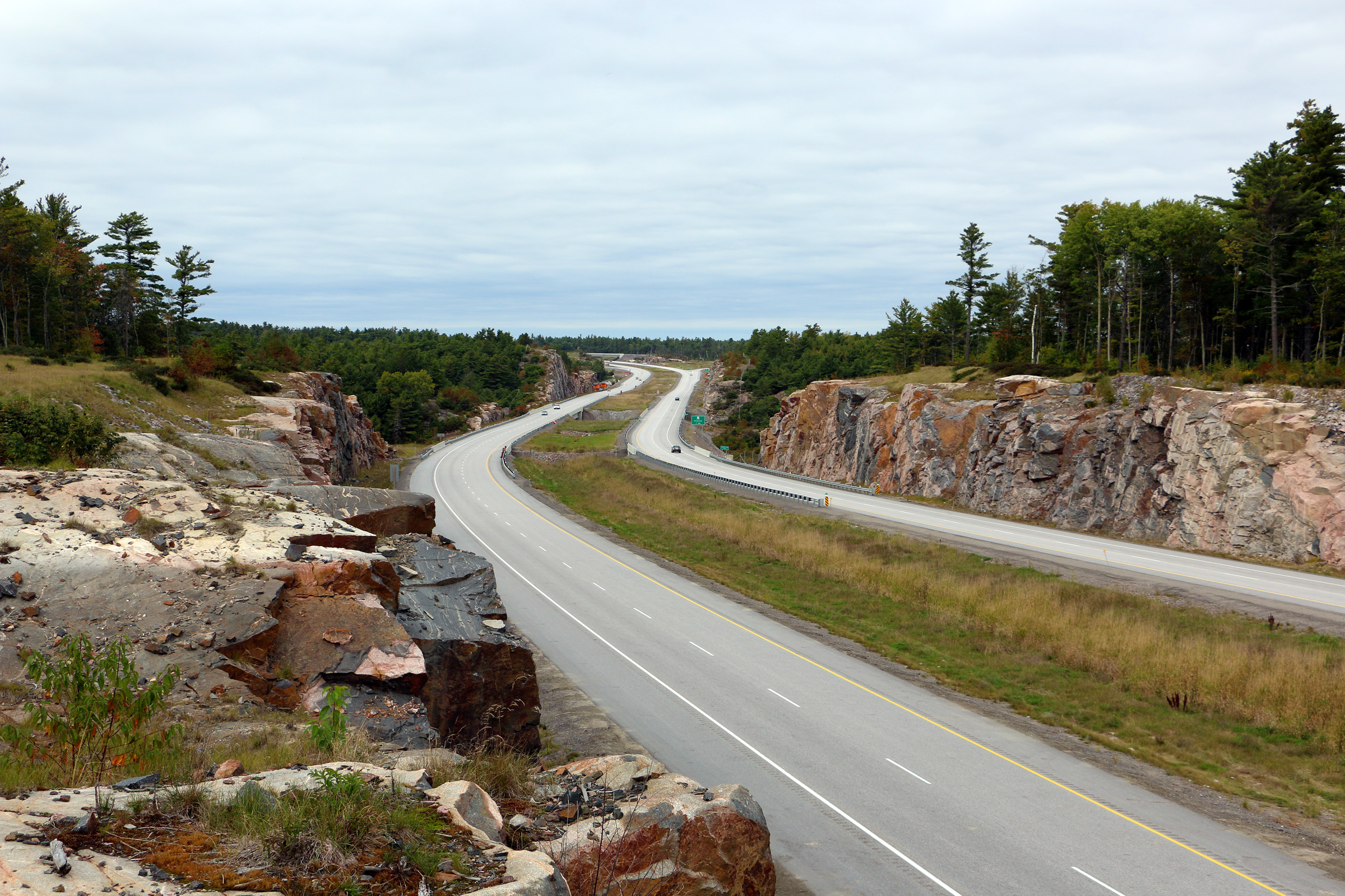 View looking north along the divided four lane alignment of Highway 69 at Lovering Lake, south of the Highway 637 interchange, in September, 2015. For more photos of Highway 69, click here